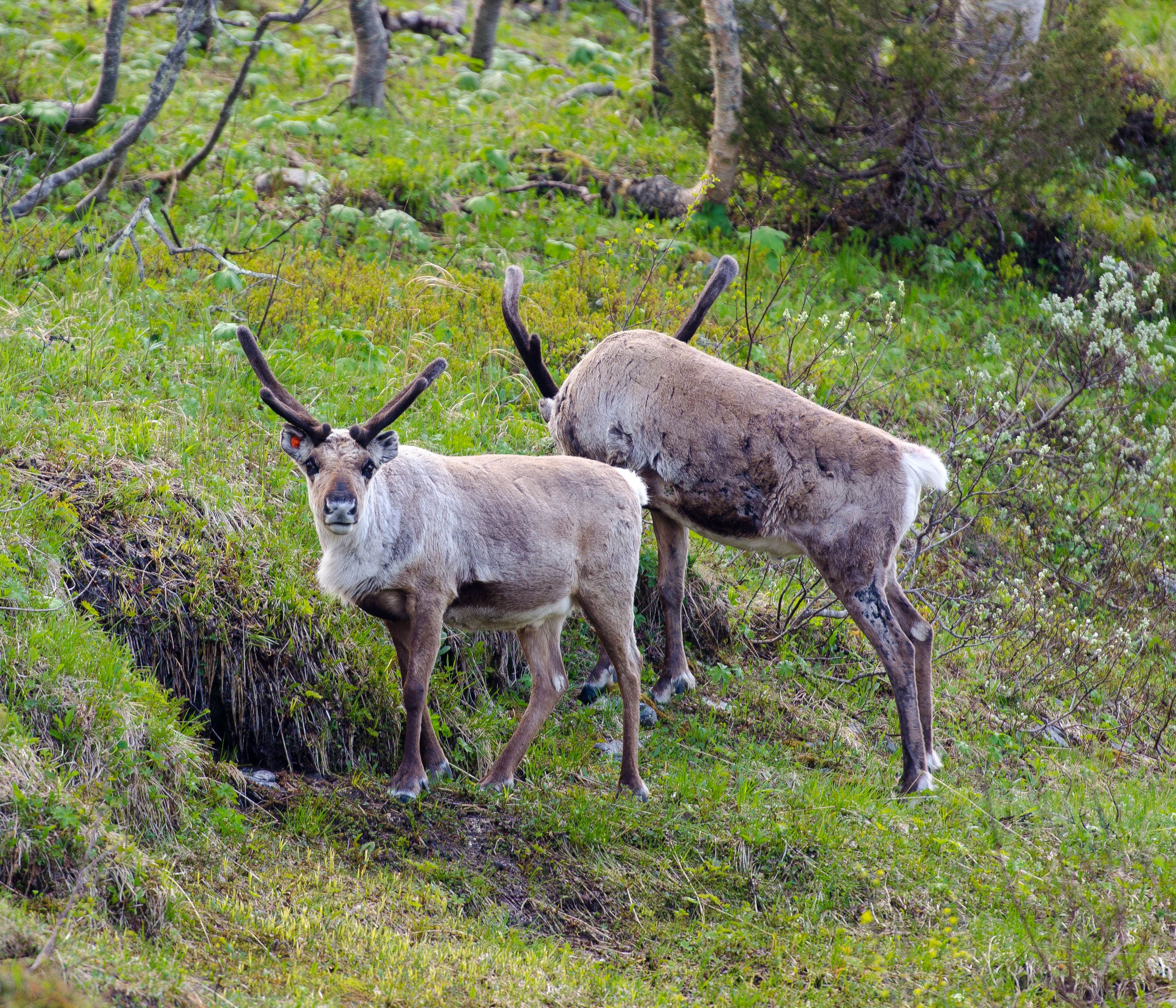 Reindeer (Rangifer tarandus) in Ljungdalen, Berg Municipality, Jämtland County, Sweden.